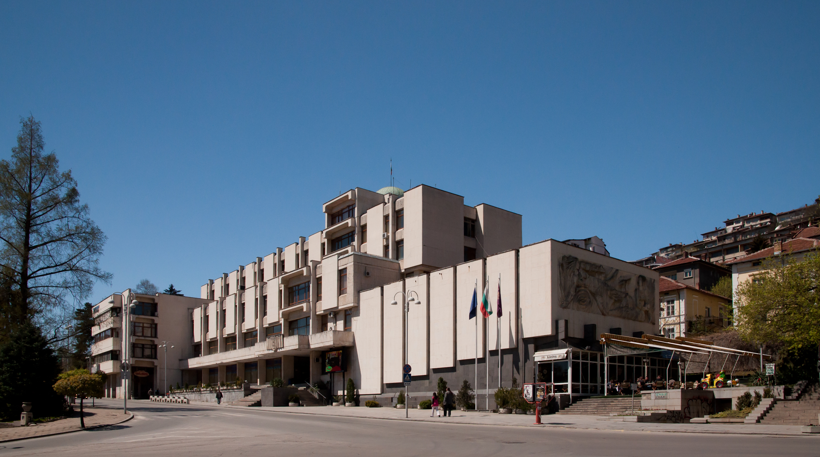 Veliko Tarnovo Town Hall, Bulgaria.